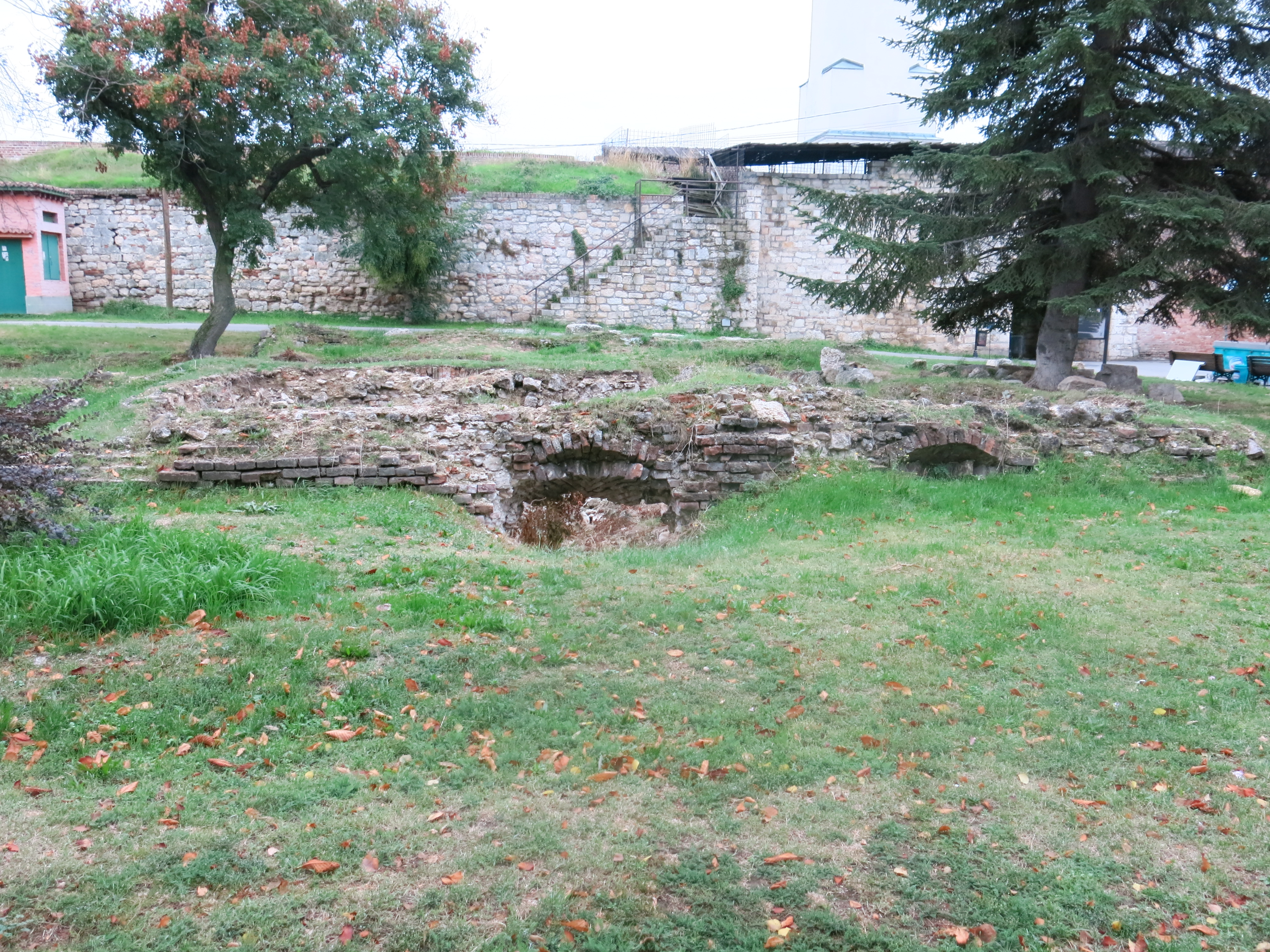 Belgrade Fortress consists of the old citadel (Upper and Lower Town) and Kalemegdan Park (Large and Little Kalemegdan) on the confluence of the River Sava and Danube, in an urban area of modern Belgrade, the capital of Serbia. It is located in Belgrade's municipality of Stari Grad. Belgrade Fortress was declared a Monument of Culture of Exceptional Importance in 1979, and is protected by the Republic of Serbia. It is the most visited tourist attraction in Belgrade, with Skadarlija being the second. Since the admission is free, it is estimated that the total number of visitors (foreign, domestic, citizens of Belgrade) is over 2 million yearly.